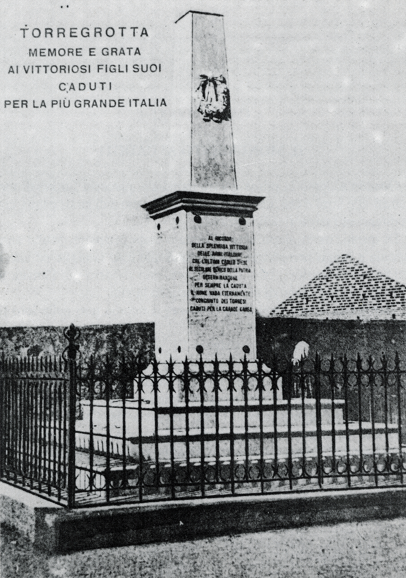 Vintage postcard of Torregrotta war Memorial, Sicily, Italy.